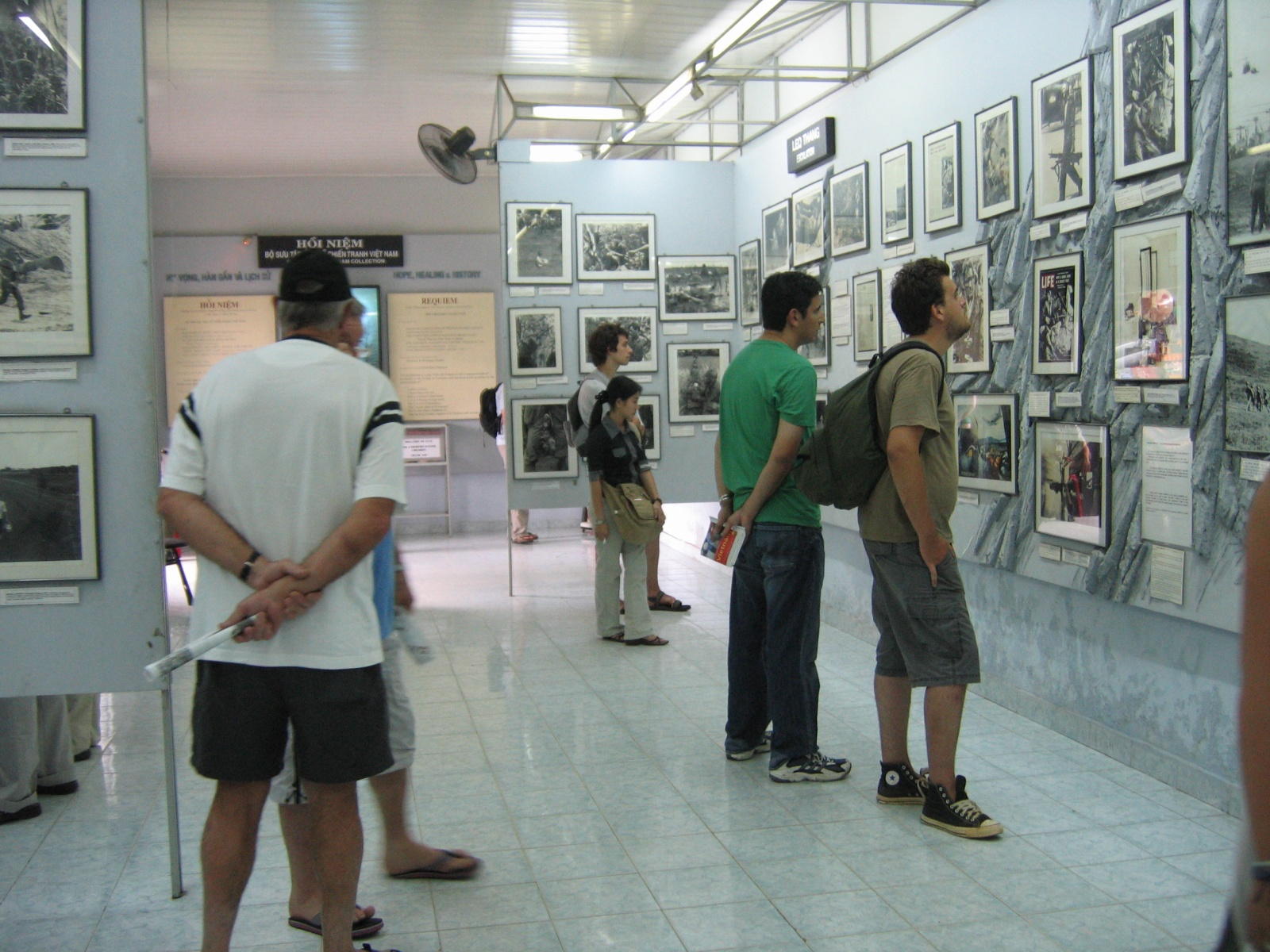 Photo Exhibits at War Remnant Museum, Ho Chi Minh City, Vietnam.